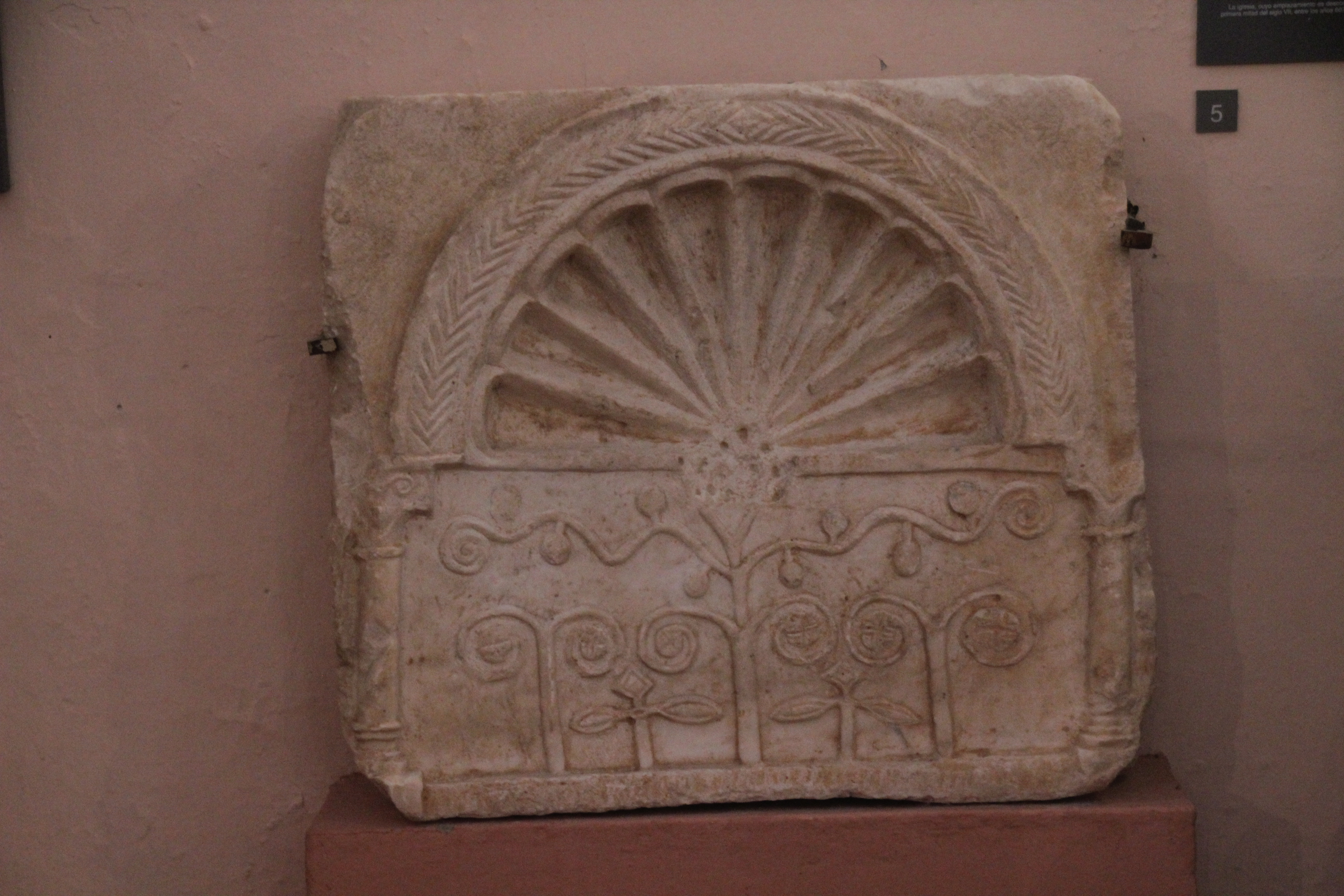 Relief in the Museum of the Visigoth Art